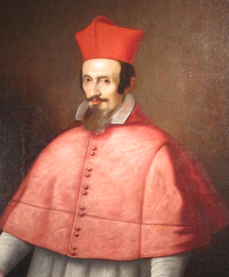 Anonymous of 17th century, Card Cesare Monti Archbishop of Milan, Diocesan Museum of Milan